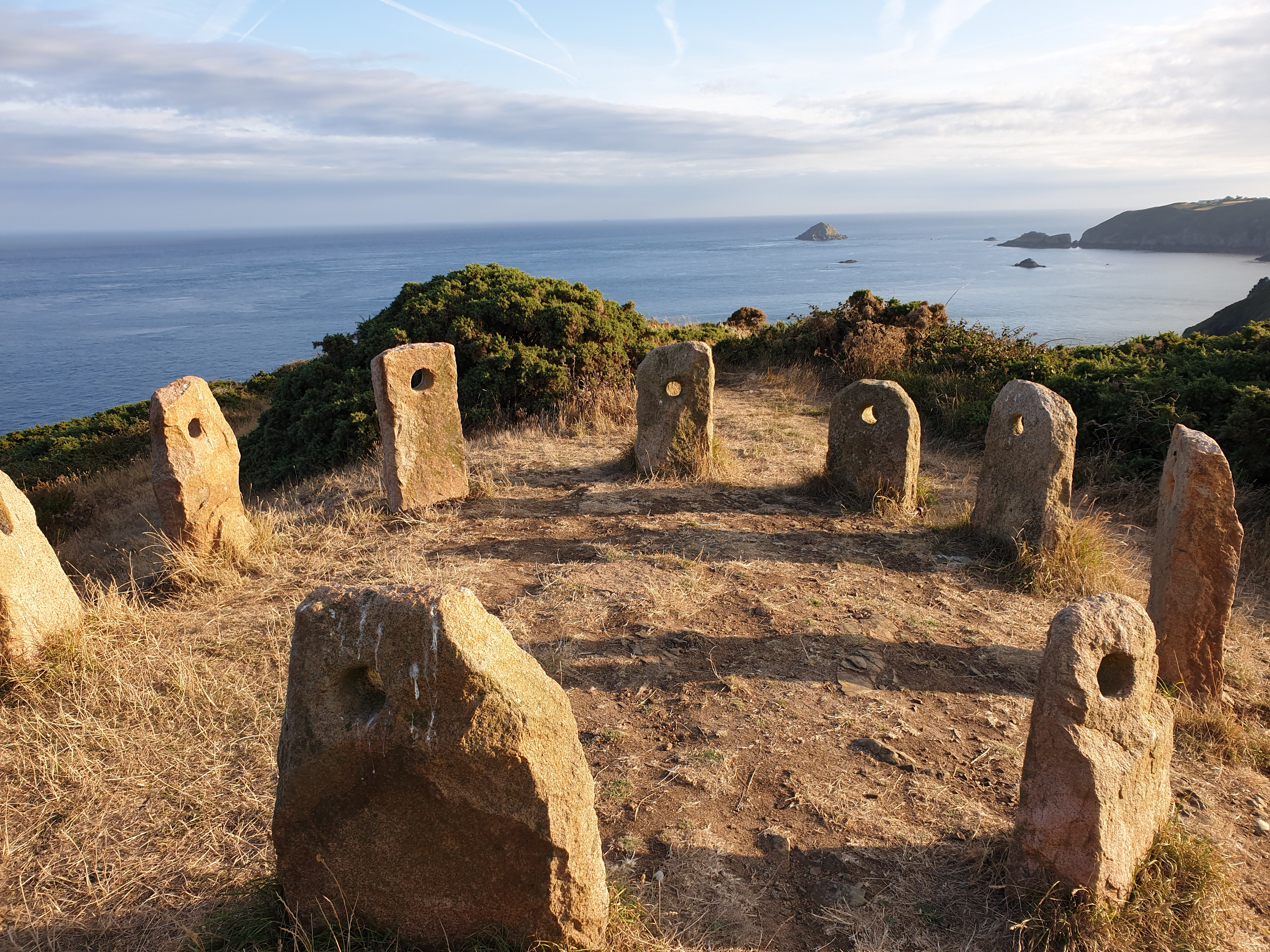 Sark Henge was erected in 2015, and commemorates the 450th anniversary of Queen Elizabeth I granting the Fief of Sark to Helier De Carteret.